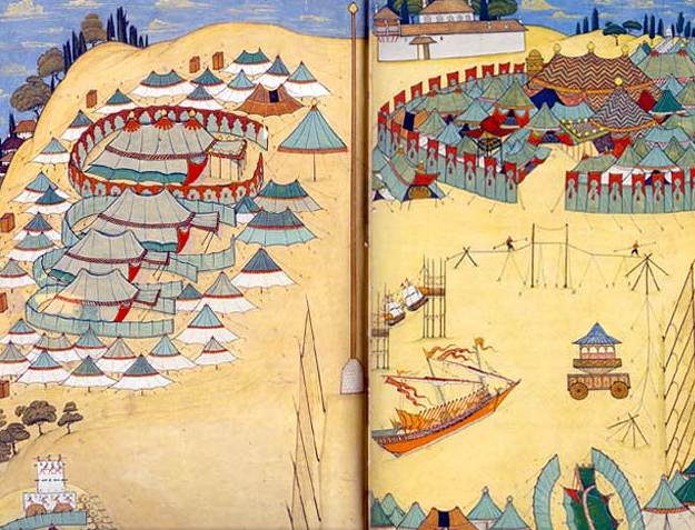 The tent-city of the Sultan. This city was composed of living and audience-tents. This was constructed around the Bosphorus for the occasion of the circumcision of Sultan Ahmed III's sons. Ottoman miniature painting, from the Surname-ı Vehbi, kept at the Topkapı Sarayı Müzesi, Istanbul (Inv. A 3593/11a)